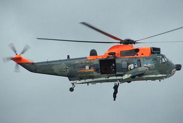 German Westland Sea King SAR helicopter in action. Kiel, Germany. 2005 /PAJ